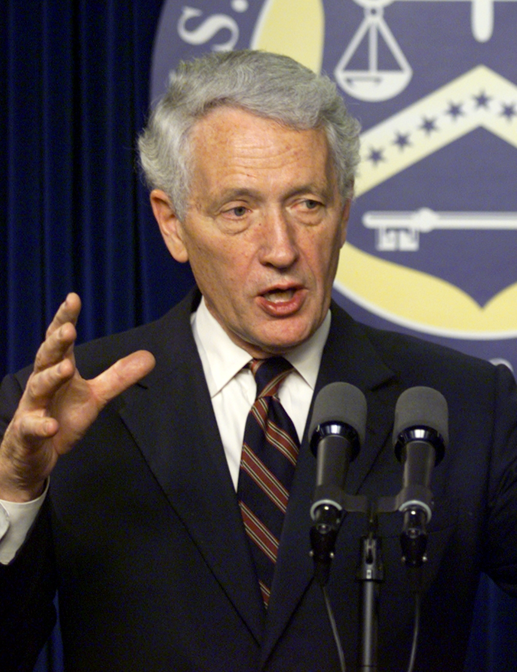 U.S. Customs and Border Protection Deputy Treasury Secretary Kenneth Dam (left) and U.S. Customs Commissioner Robert C. Bonner (right) announce the launch of Operation Green Quest, an initiative that will target current and future terrorist funding sources.